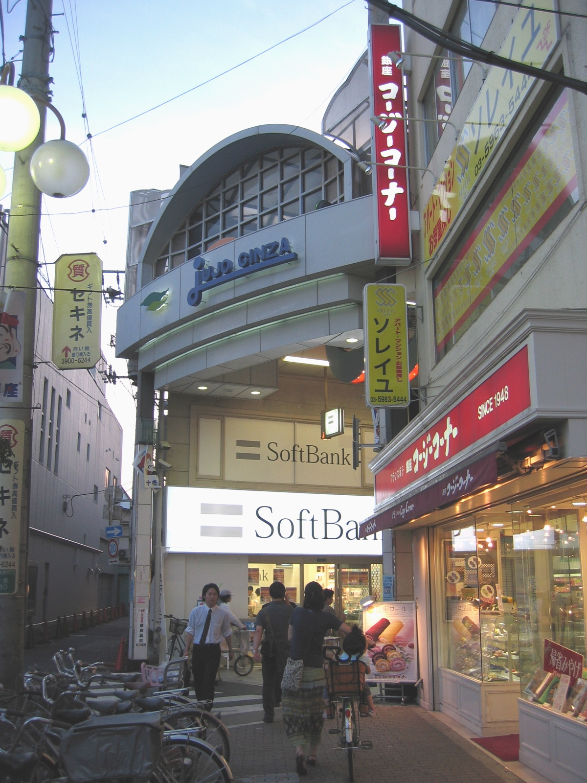 Jujo Ginza, located in Kita-Ku, a covered marketplace with everything from Pachinko to Seafood.